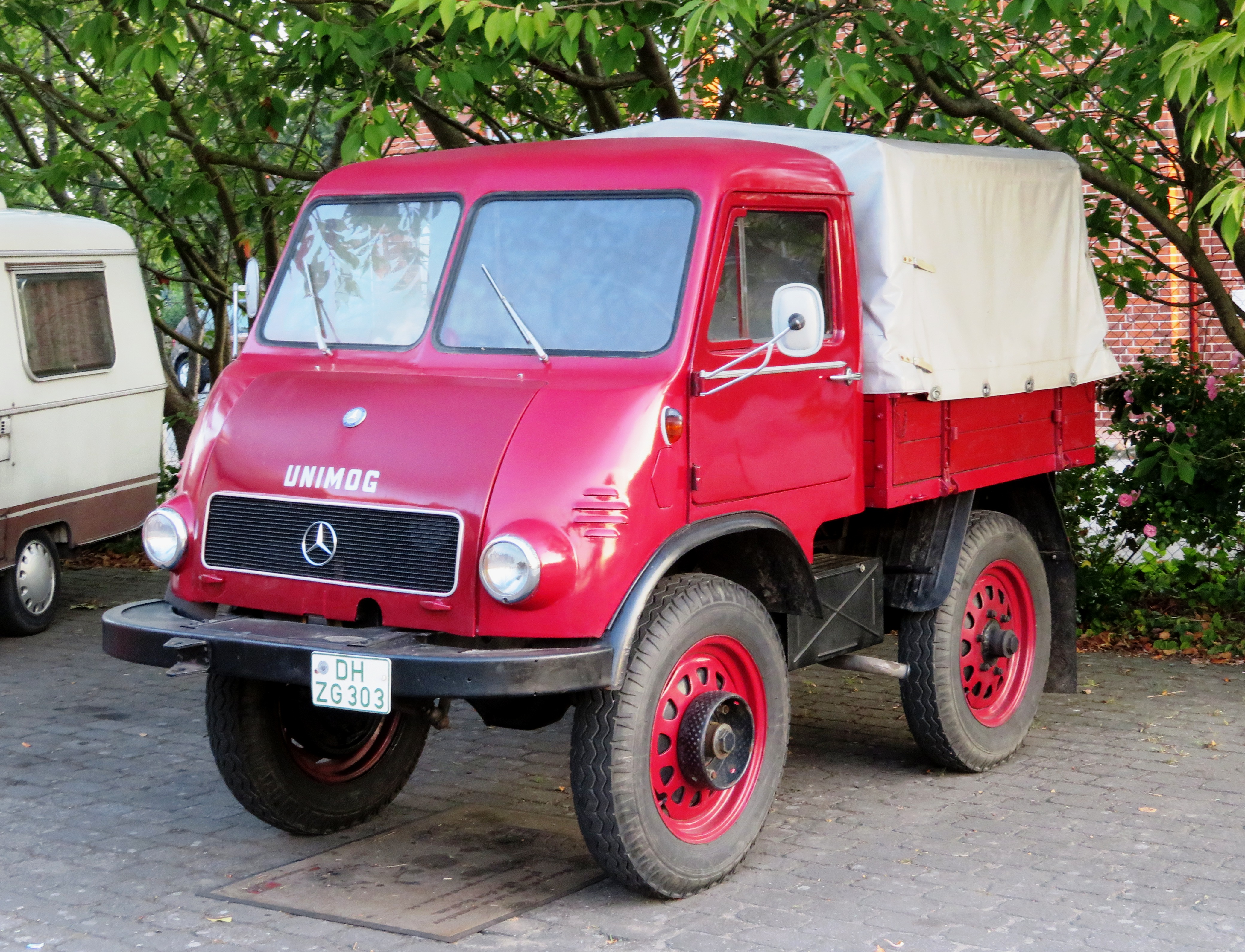 Unimog 401 with enclosed steel cabin ca 1954